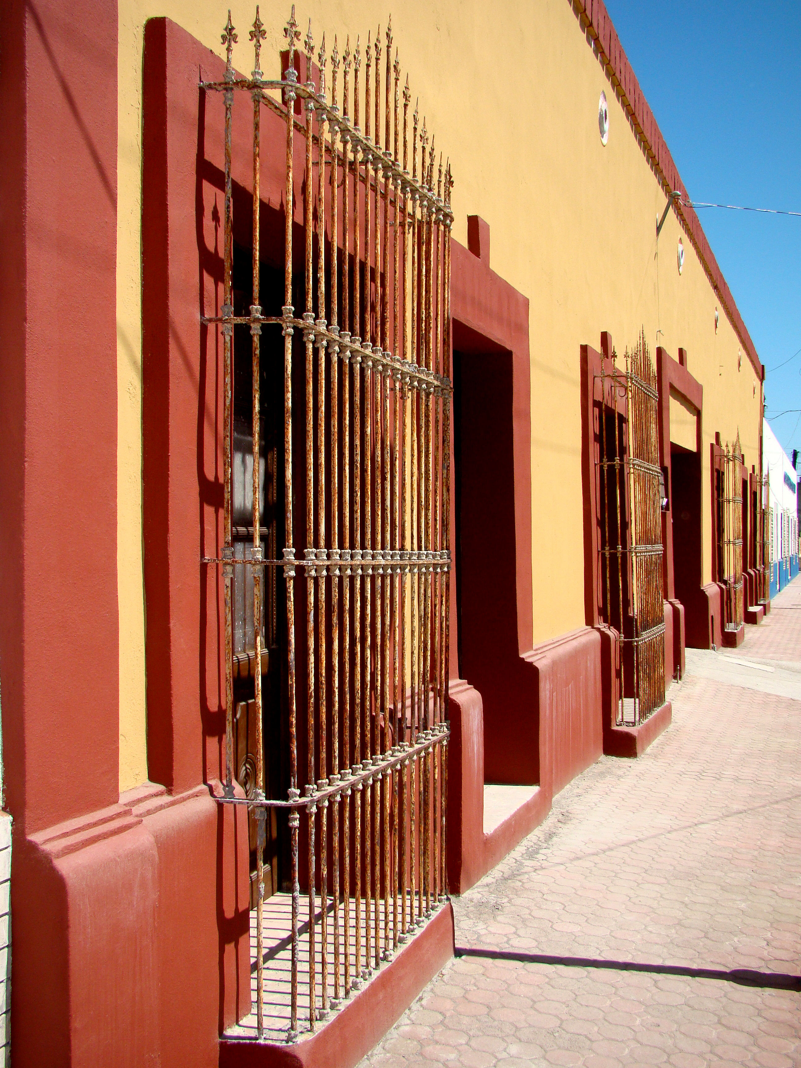 Generl Terán's historic center.